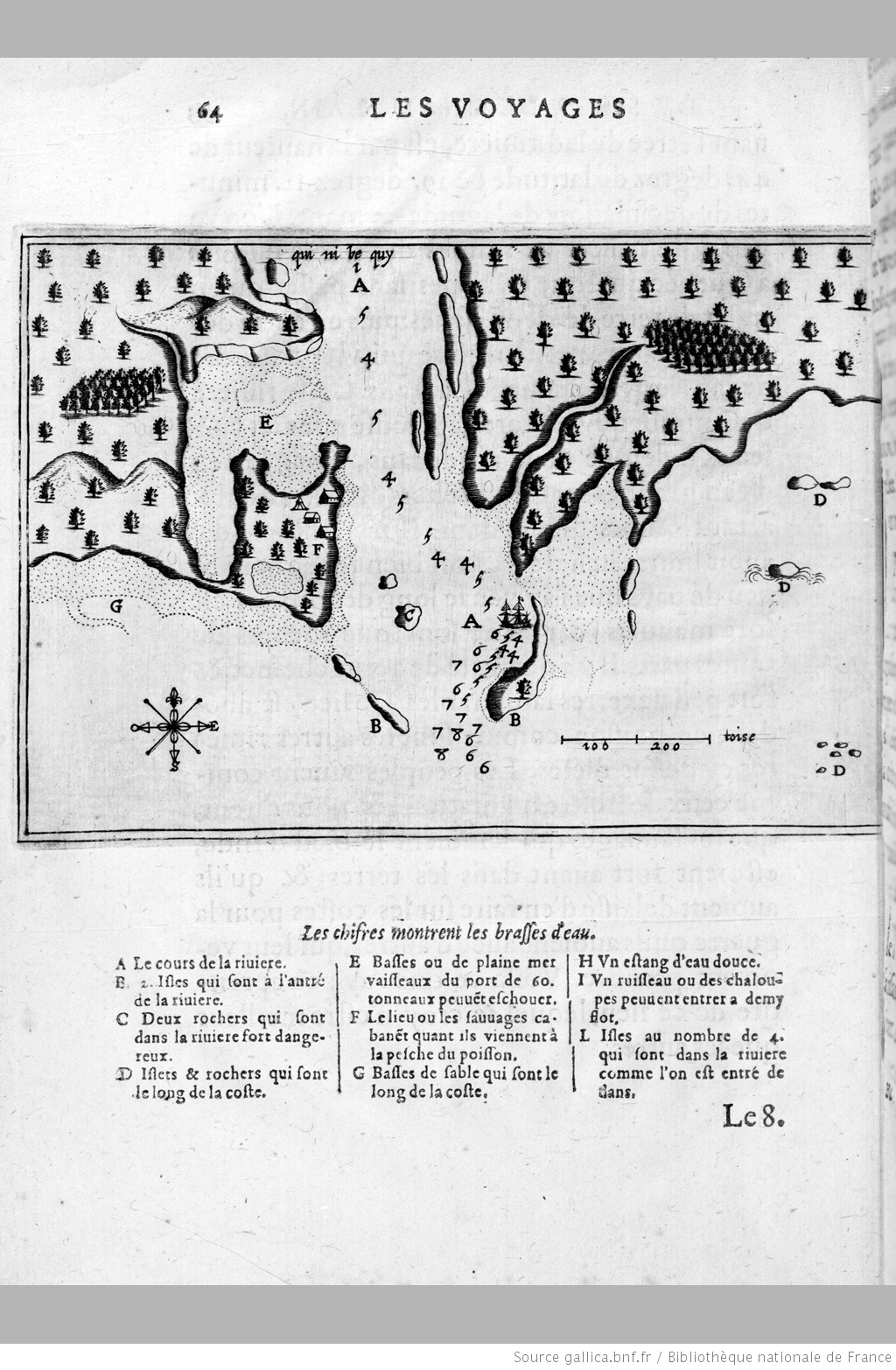 Page from "Illustrations de Les Voyages de Champlain" published in 1613 in Paris by J. Berjon. The map is showing the area at the mouth of the Kennebec River.